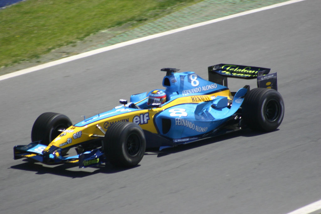 Fernando Alonso driving for Renault F1 at the 2004 Canadian Grand Prix.